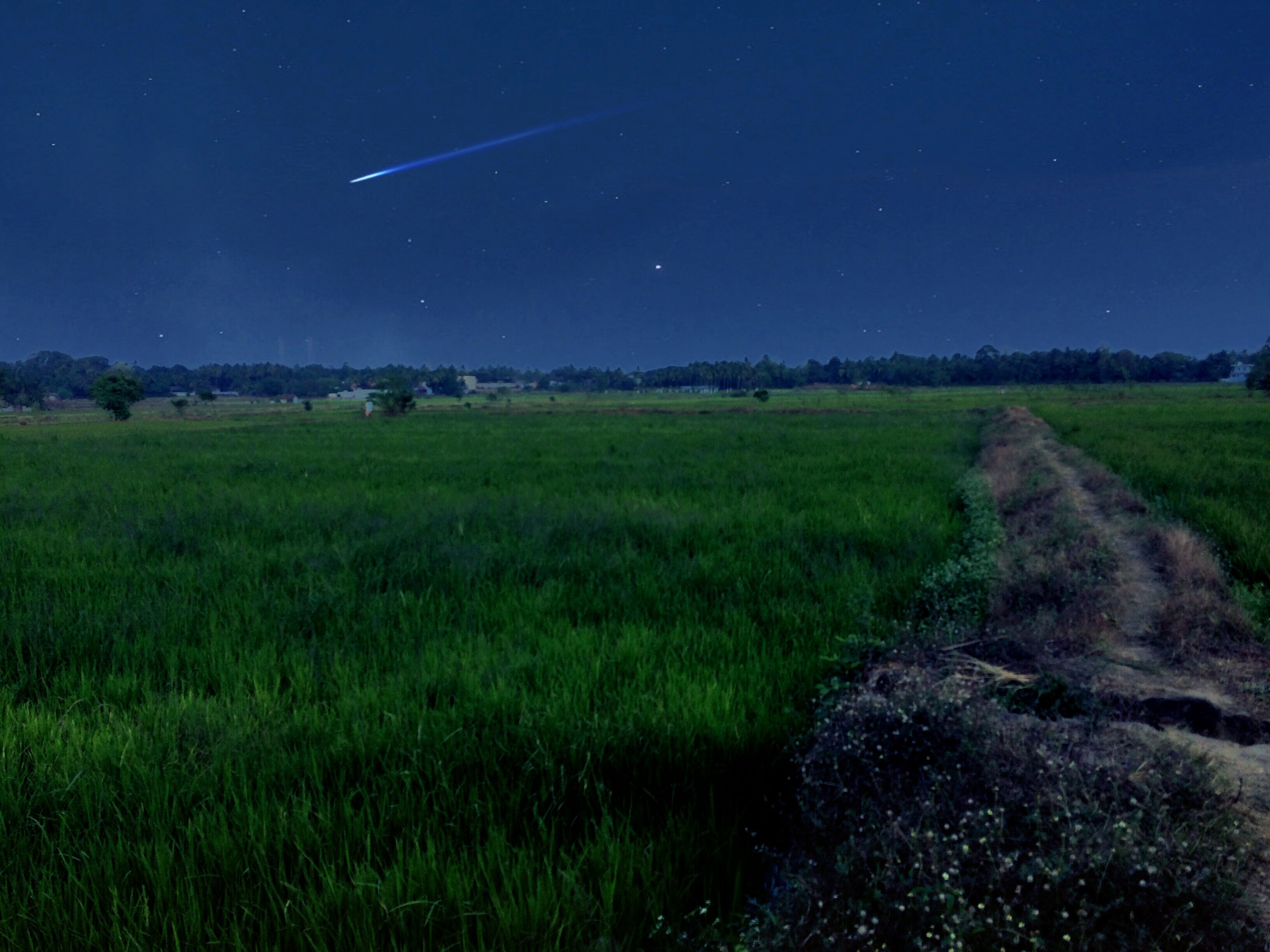 a quick glimse of shooting star over the paddy fields of Kerala